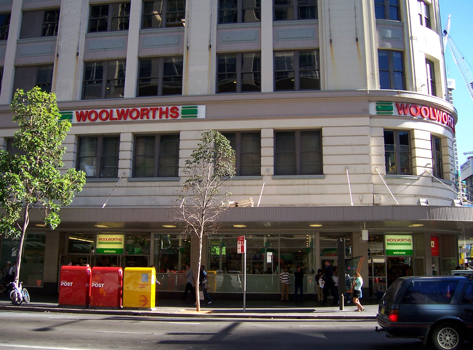 A Woolworths Limited store opposite the Sydney Town Hall Taken by Enoch Lau on 17 November 2005. As a courtesy, please let me know if you alter this image or this image description page. Original filename was 100_0617.JPG.